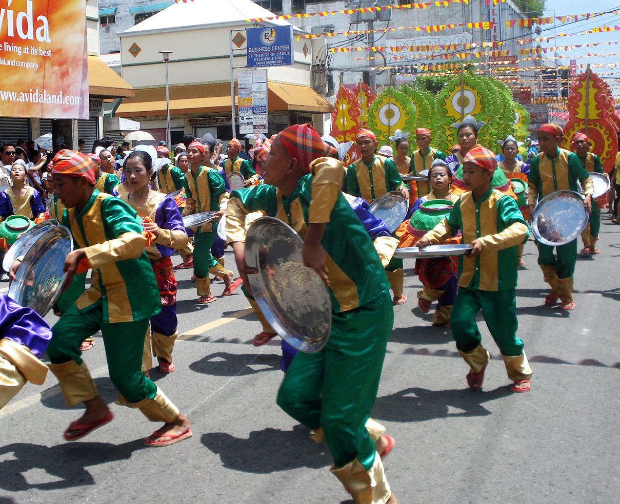 Street dancing competition, part of Kadayawan Festival celebration.